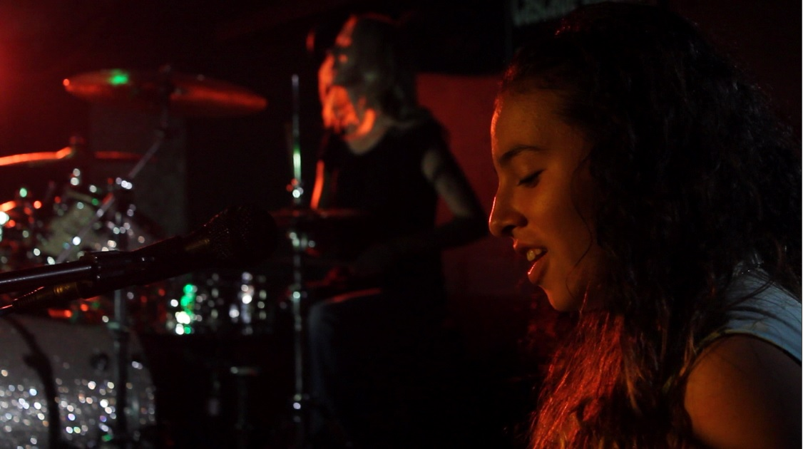 Tali Liora Chart performing Los Angeles The Song with Justin Chart